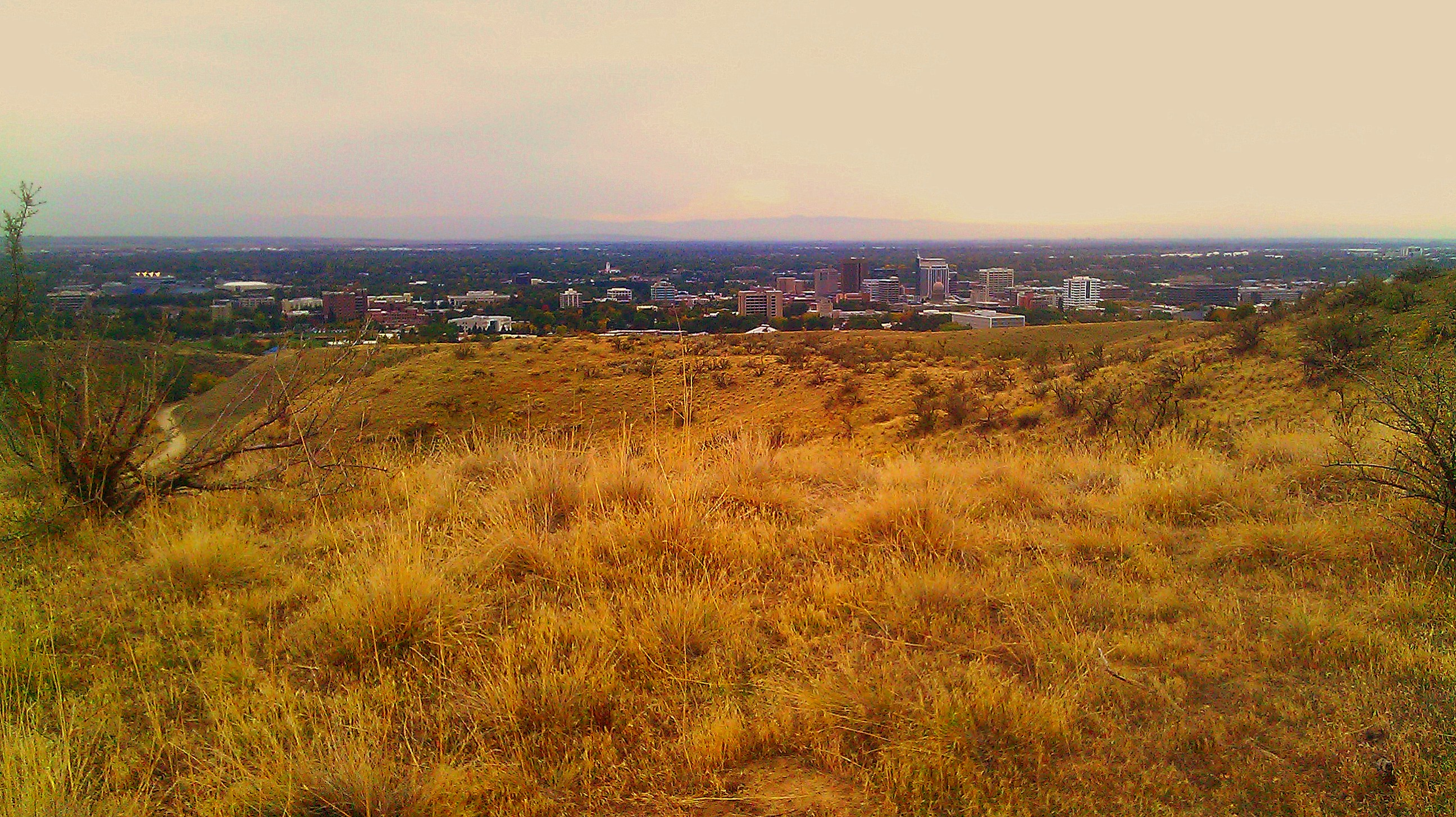 Boise Metropolitan Area, as seen from foothills above city